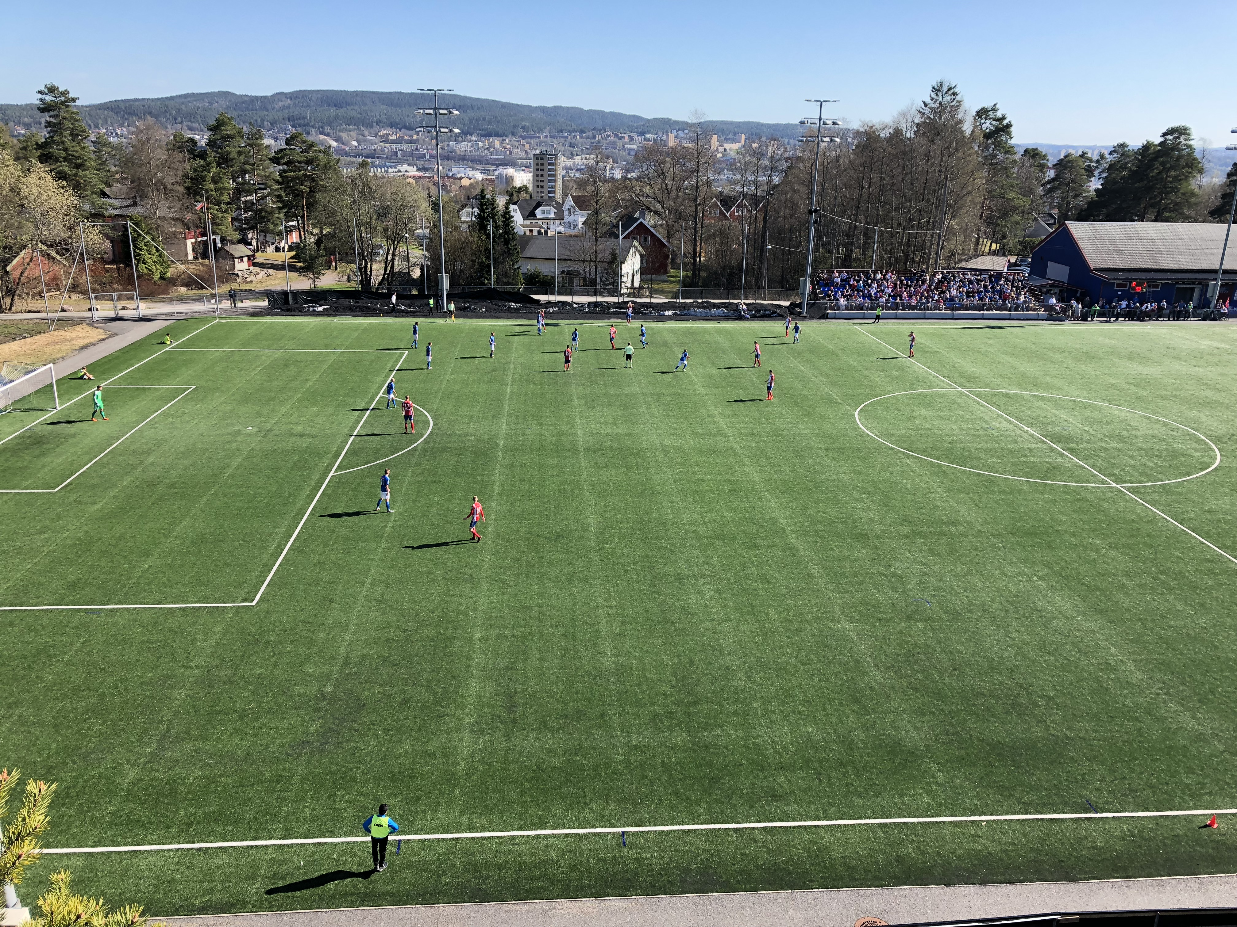 Football match at the Grei Field (Greibanen, Grei Kunstgress) at Apalløkka (Ammerud) in Oslo, Norway. Teams are SF Grei, and Lyn Toppfotball. May 5, 2018.